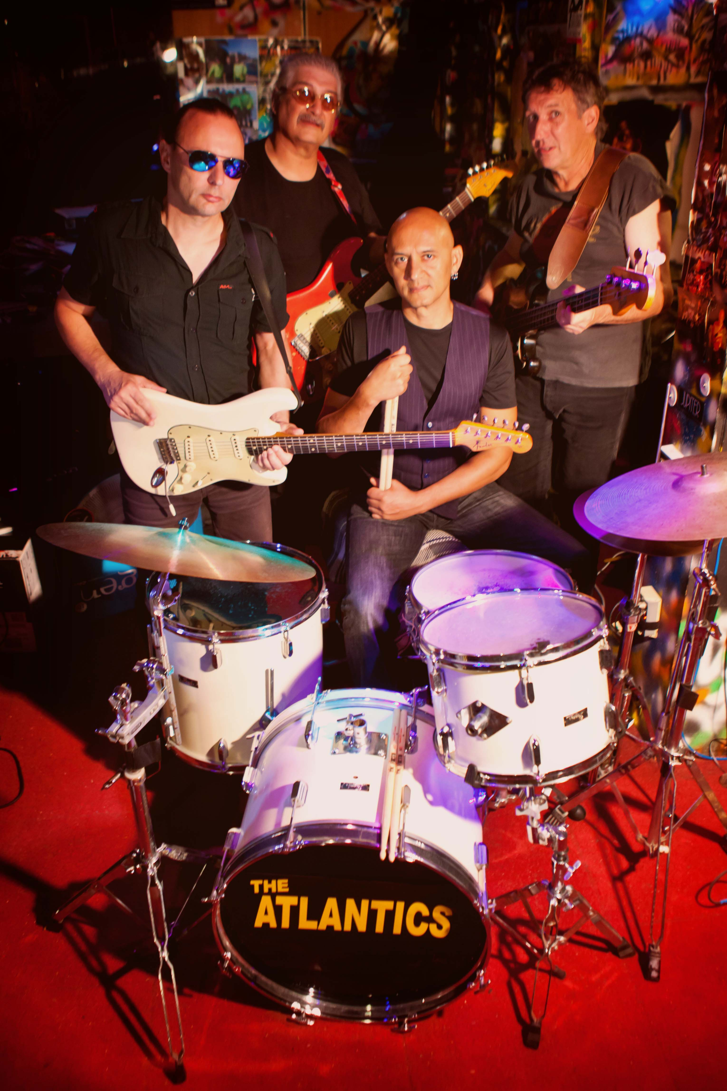 The latest touring lineup of The Atlantics.